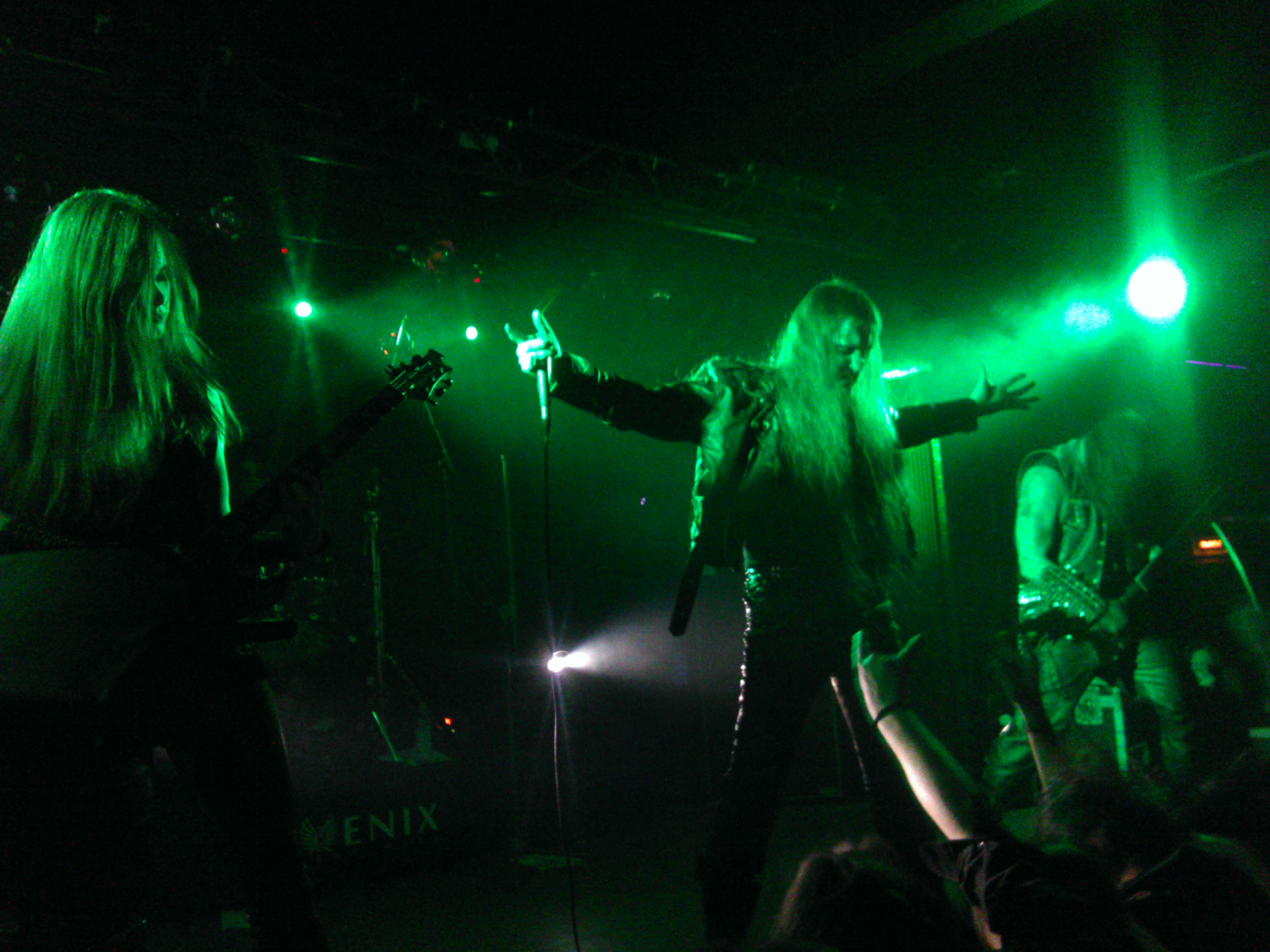 Nargaroth performing at Phoenix club, Saint Petersburg. Left to right: Obscura, Ash, Beliath